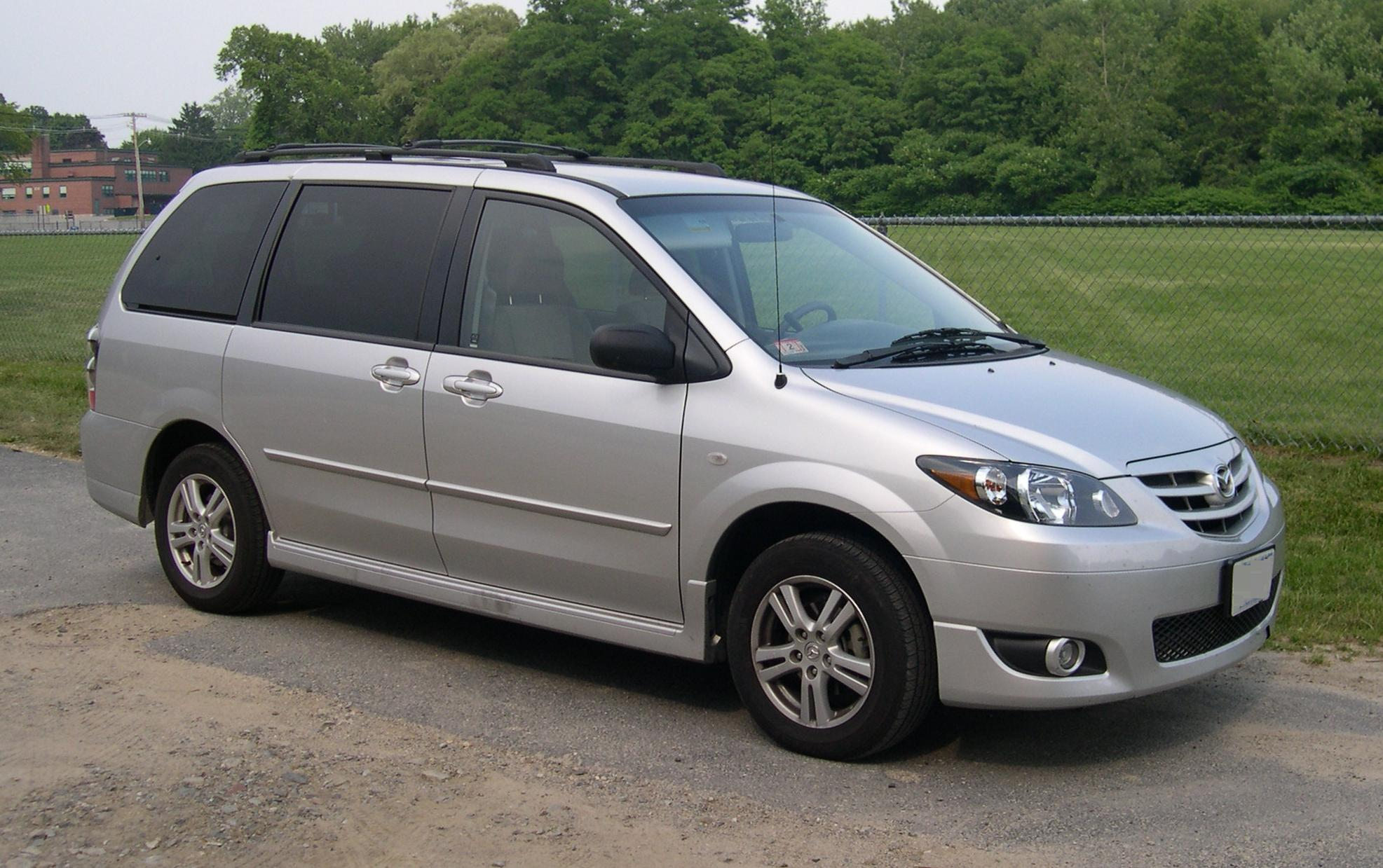 2005 Mazda MPV Source: Photo by User:Sfoskett